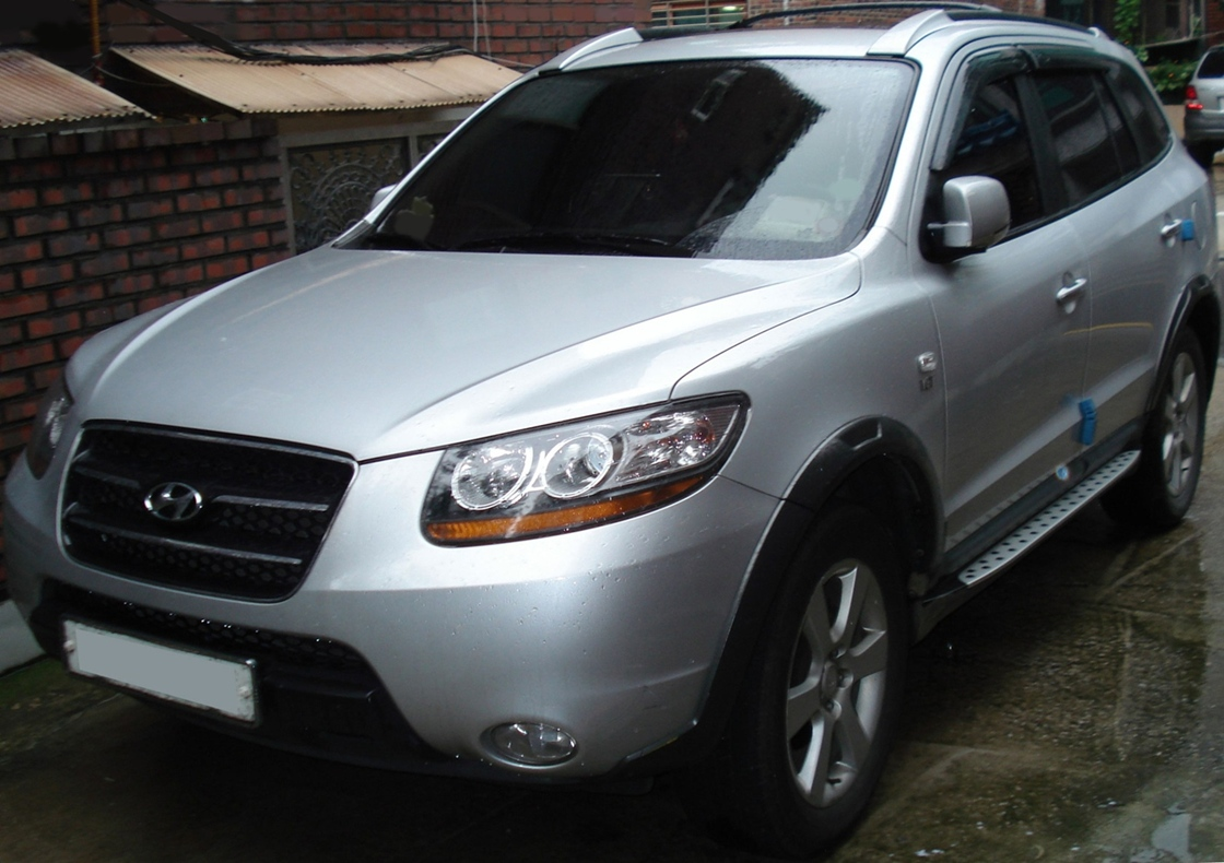 Hyundai Santa Fe